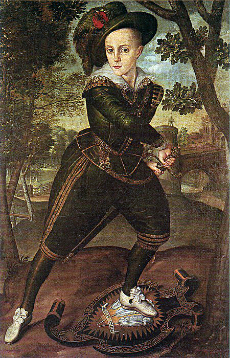 Prince Henry Frederick, eldest son of James VI & I and Anne of Denmarklabel QS:Len,"Prince Henry Frederick, eldest son of James VI & I and Anne of Denmark" label QS:Lfr,"Le Prince Henri-Frédéric Stuart, fils aîné de Jacques Ier d'Angleterre et de Anne de Danemark."